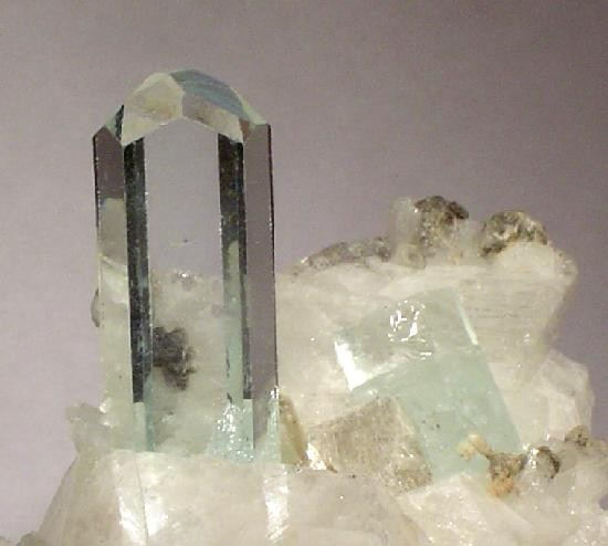 Beryl, Albite Locality: Shengus (Shingus), Haramosh Mts., Skardu District, Baltistan, Northern Areas, Pakistan (Locality at ) Size: 5.8 x 4.4 x 3.5 cm. A beautiful, 2.2 cm, perfect gem, aquamarine crystal with a striking, complex termination attached to a sharp, euhedral, pearlescent albite crystal. The small aquamarine is a very nice accent. Seldom do you see an aquamarine crystal on a super sharp albite crystal, such as this. Ex. Marty Zinn Collection.